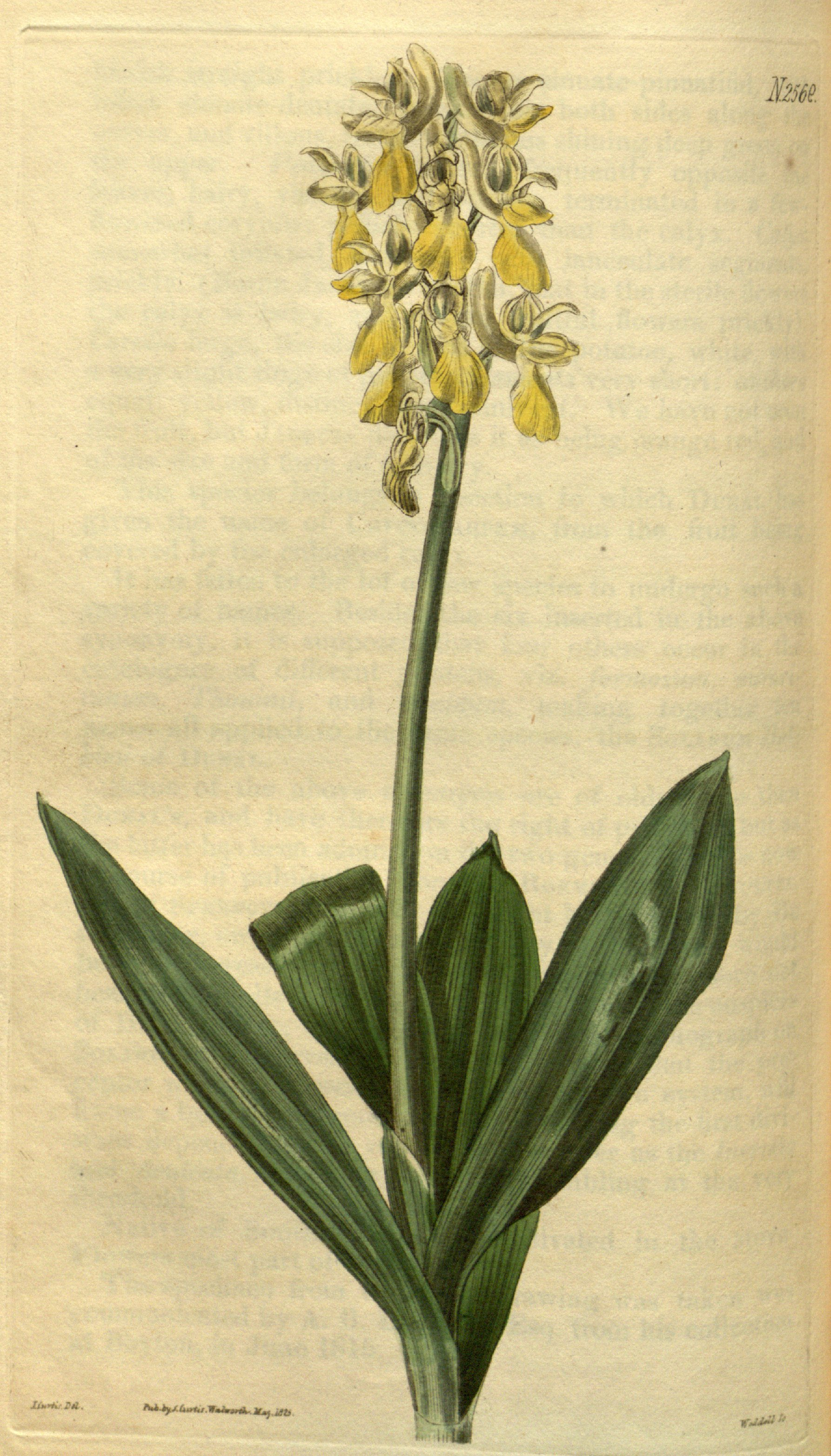 Illustration of Orchis pallens (as syn. Orchis sulphurea)